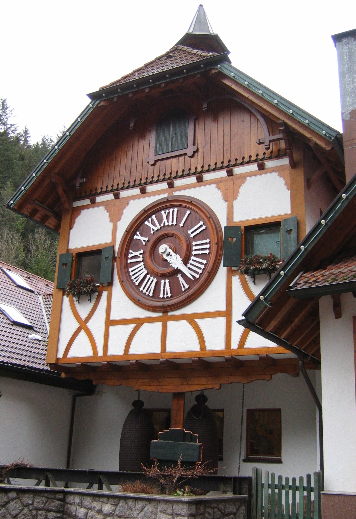 The world's largest cuckoo clock in Triberg im Schwarzwald, Germany.